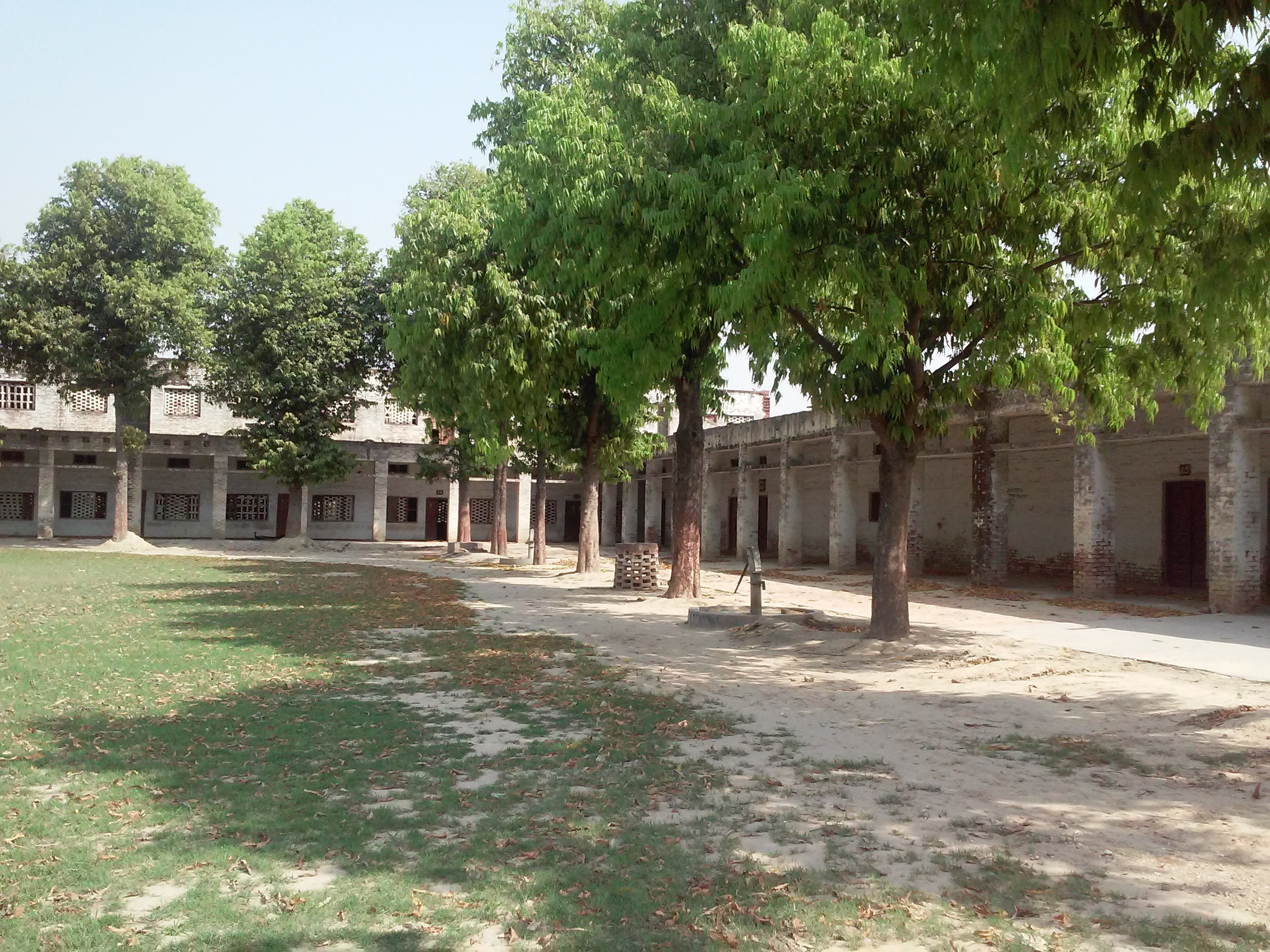 Internal corner view of Galuwapur Inter College Galuwapur,Kanpur Dehat,UP,India.